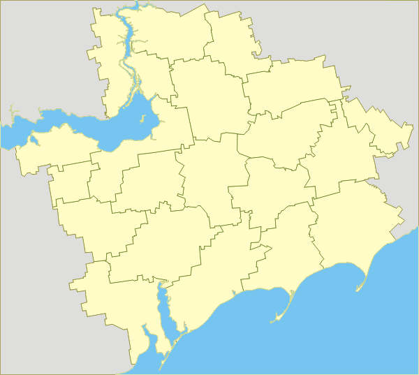 Контурная_карта_Запорожской_области_с_границами_районов